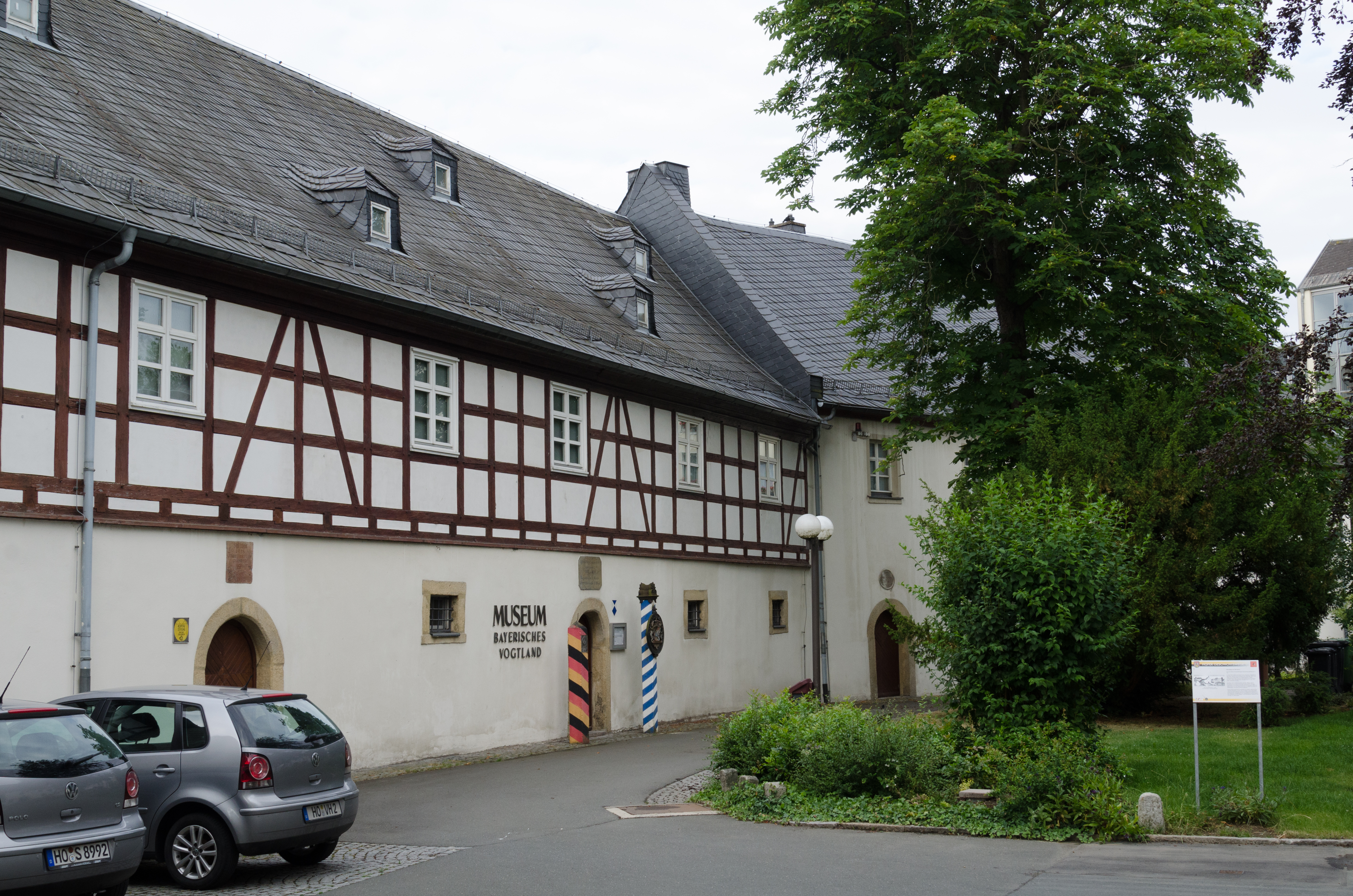 Hof, Unteres Tor 5